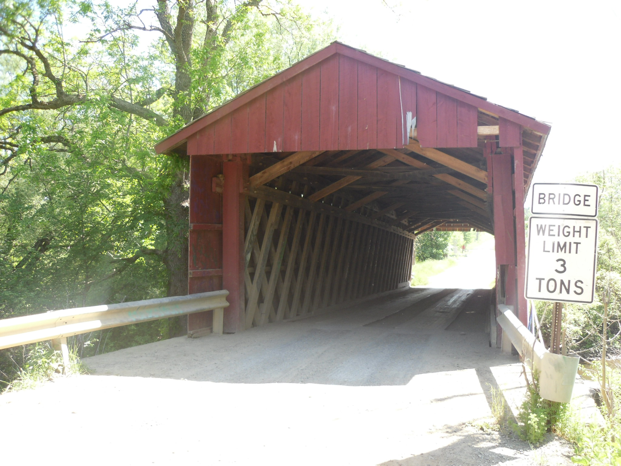 Waterford Covered Bridge - Waterford, Pennsylvania